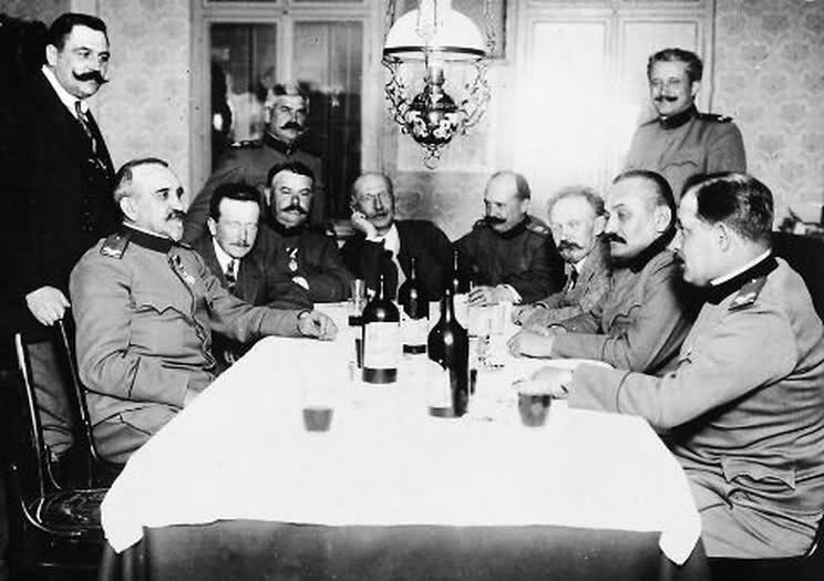 Members of the Black Hand; colonel Dragutin Dmitrievich "Apis" is in the centre